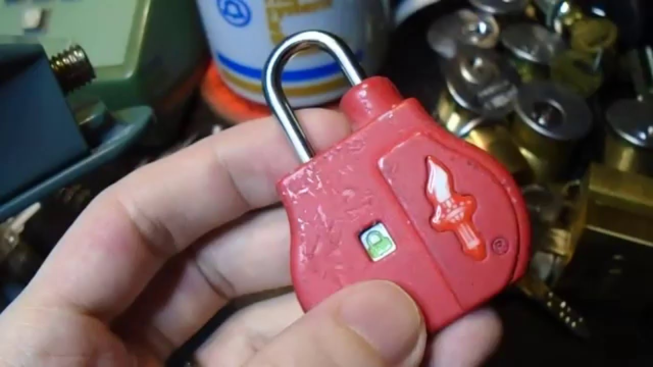 still photo from video "(056) Safe Skies search indicator padlock vulnerability" by Nite 0wl